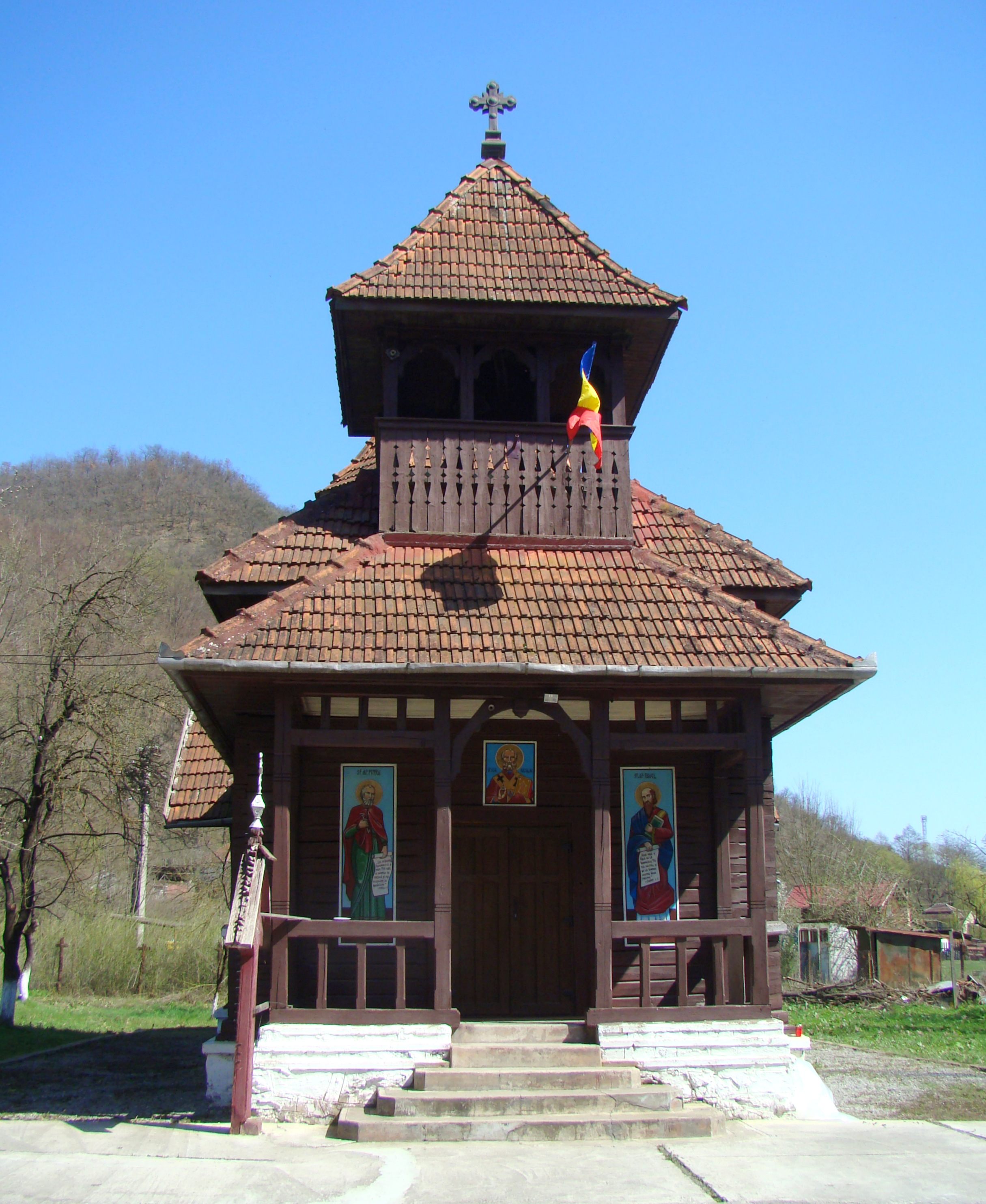 Saint Nicholas wooden church in Groș, Hunedoara county, Romania